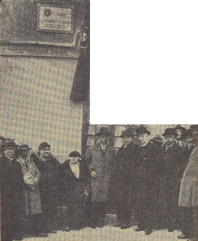 Ceremony of the unveiling of a commemorative plaque in honor of the journalist Leonildo de Mendonça e Costa, in the square with his name, in the city of Lisbon, in Portugal. This photograph was published in the Gazeta dos Caminhos de Ferro magazine No. 1087, of 1st. April 1933, and scanned by the Hemeroteca Municipal de Lisboa.